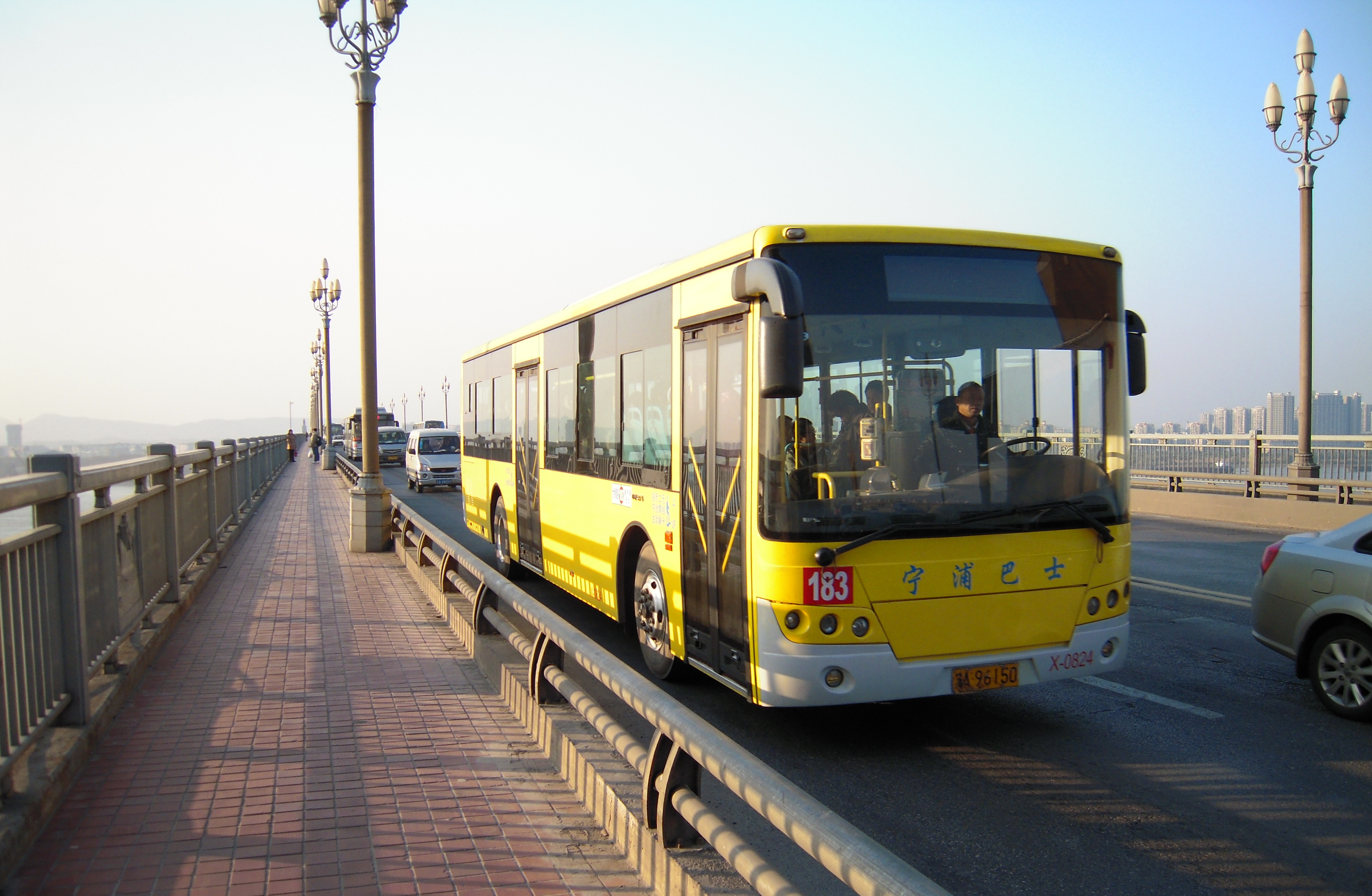 Nanjing bus No.183 on Nanjing Yangtze River Bridge